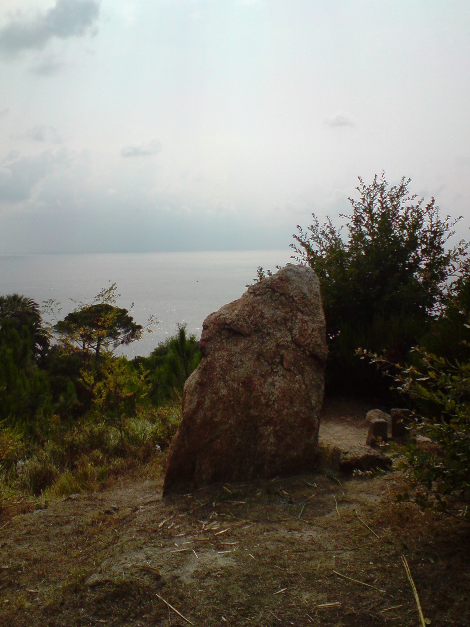 Photograph of the Menhir at the Piani d'Invrea, Varazze, Province of Savona, Italy